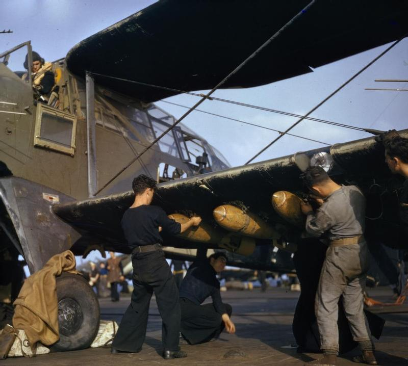 North African Operations, November 1942 Bombing up a Fairey Albacore on the flight deck of the aircraft carrier HMS FORMIDABLE.